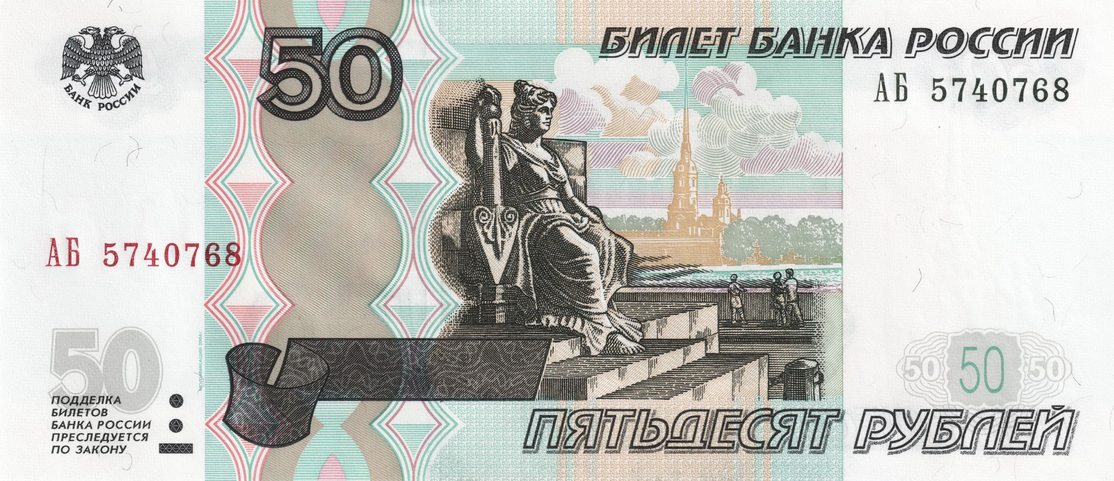 Russian banknote. 50 rubles. Version of 1997 year, 2004 mod. Front